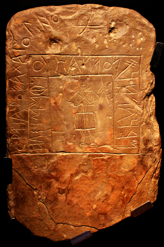 Museum of Writing - Bronze Age - Almôdovar - Portugal